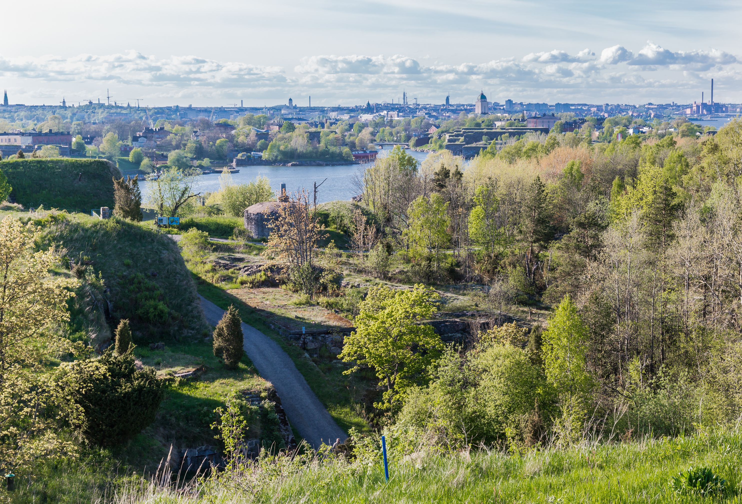 Vallisaari Island, Helsinki